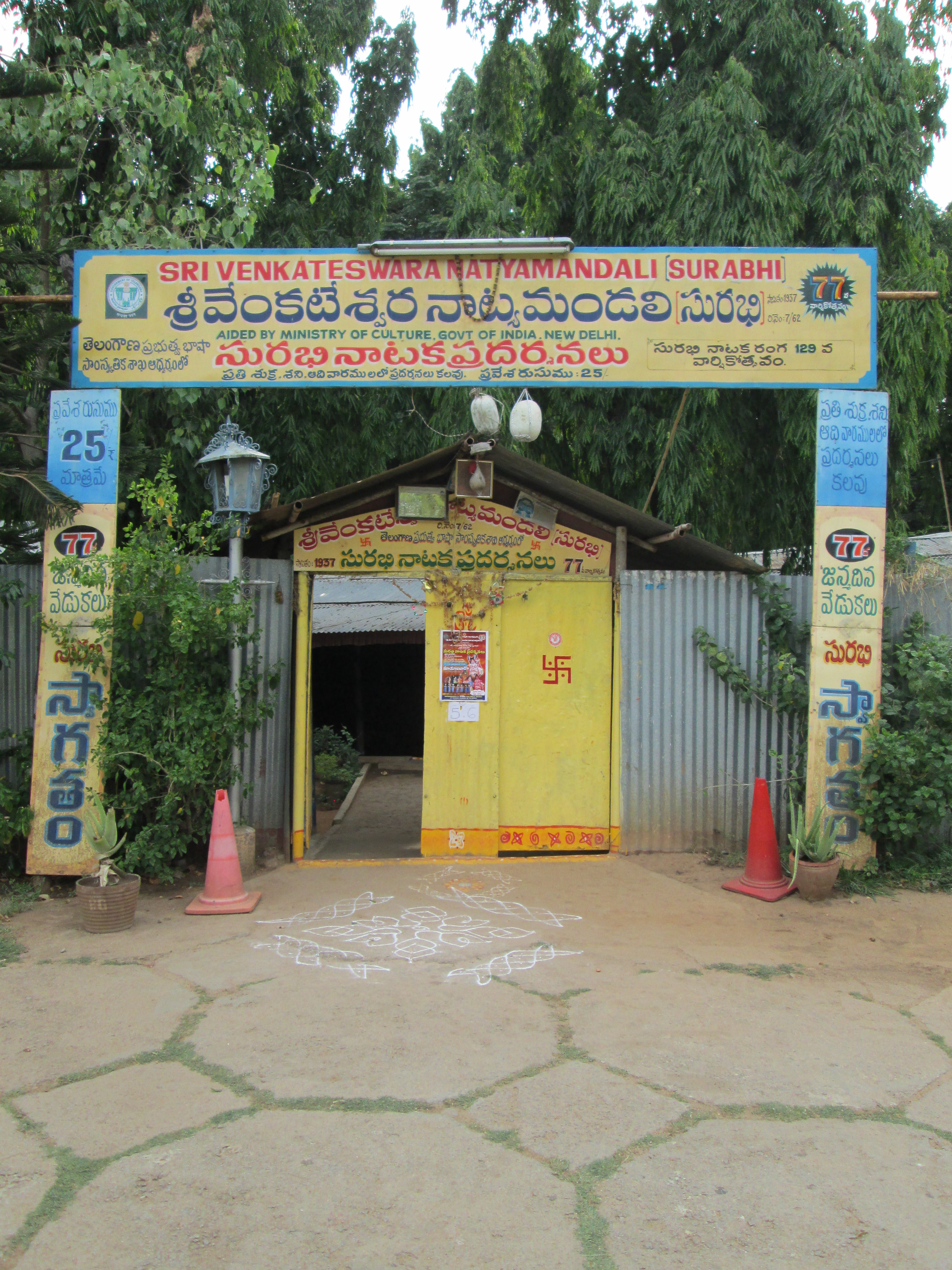 Surabhi Theatre Entrance